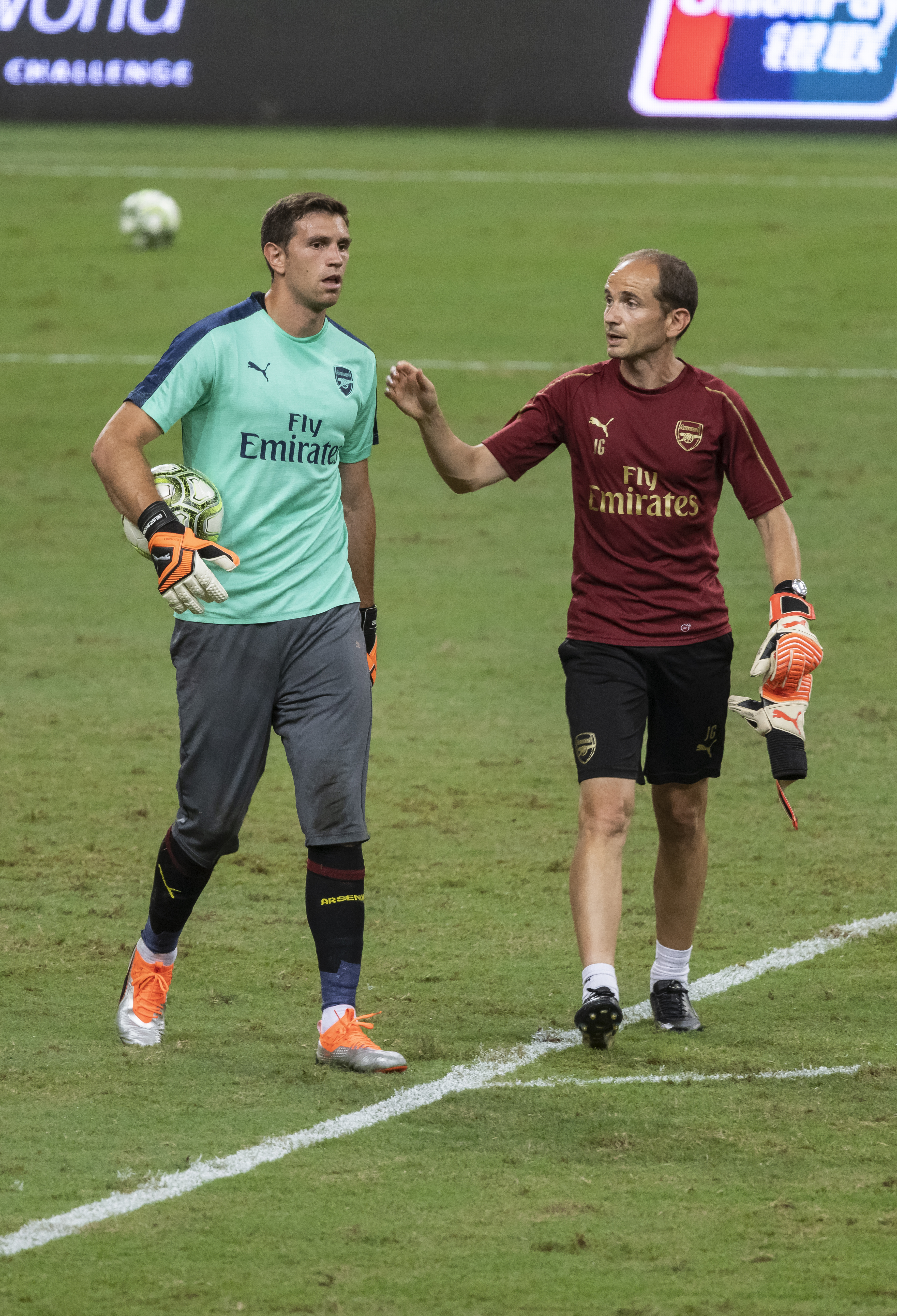 Emiliano Martínez Arsenal v PSG 2018 International Champions Cup Singapore National Stadium